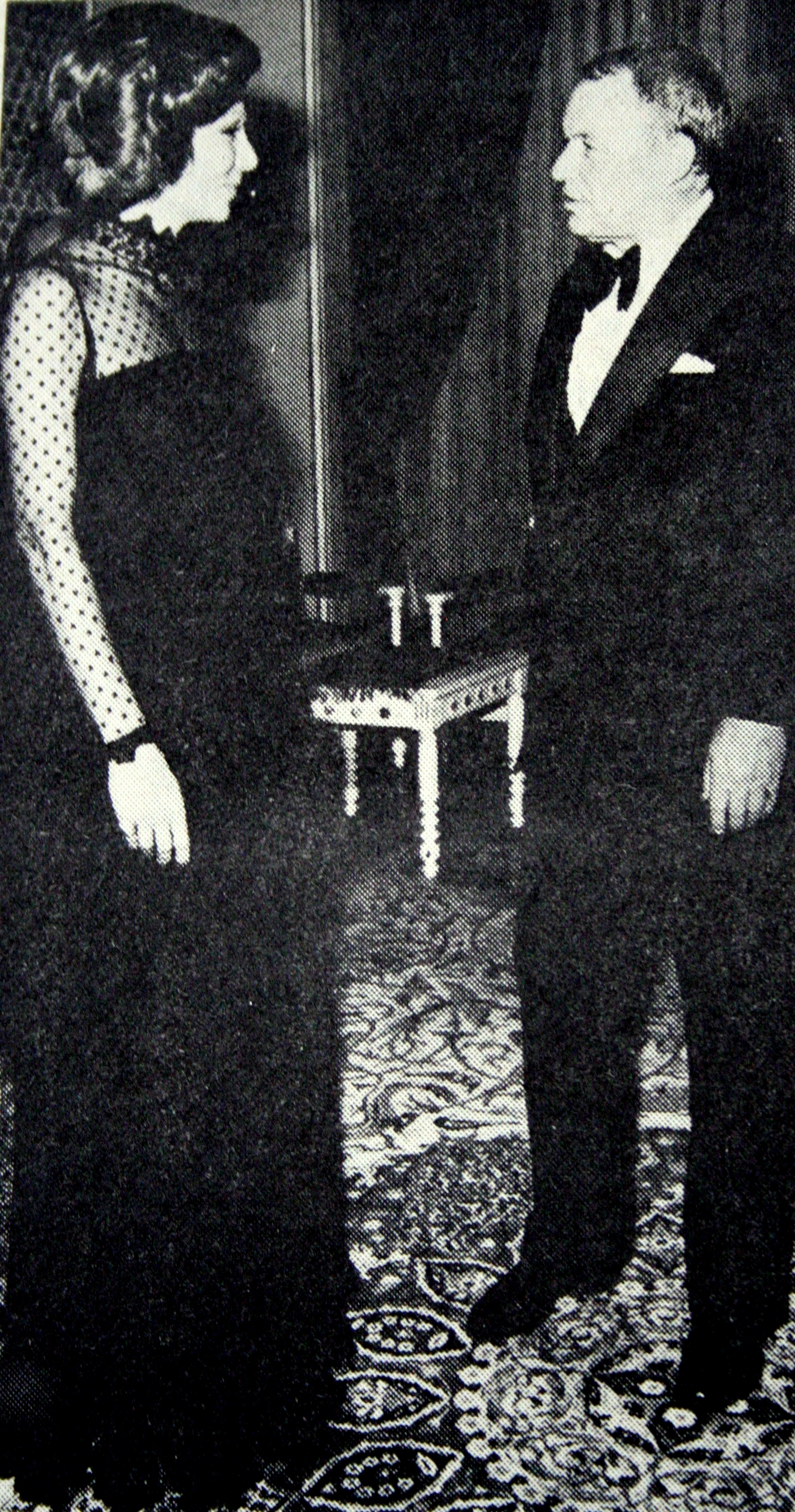 Queen Farah Diba of Persia and Frank Sinatra, Tehran, 1975.